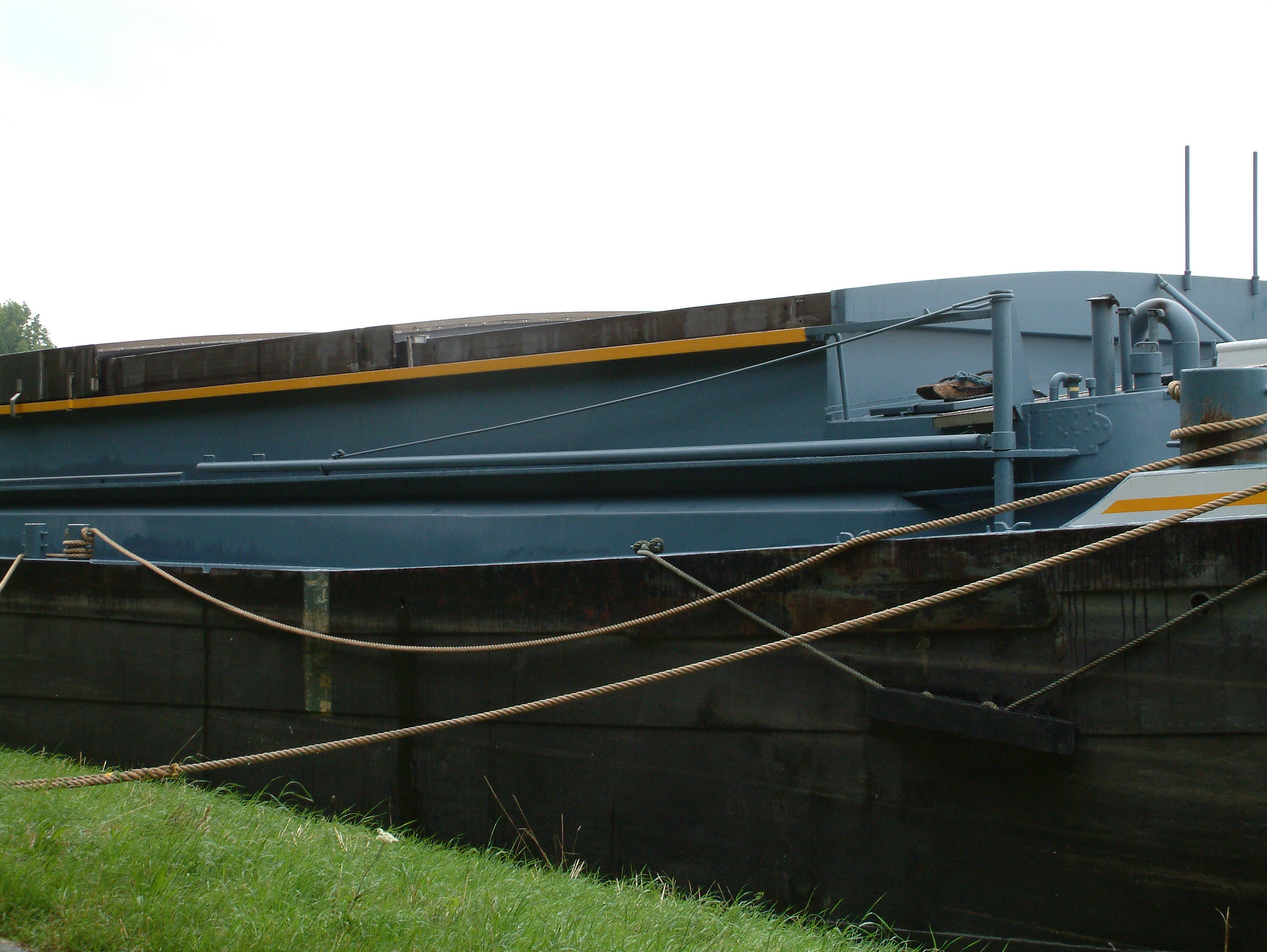 Swing arm